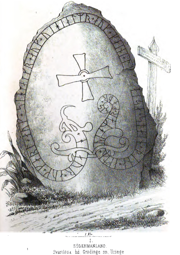 The runestone Sö 298. The inscription reads × haur + nuk + karl + auk + sihia--r + auk + uihialmr + auk + kare + (l)--- -aisa + stain + þina + aftR + uihmar + faþr + sin +. In English "Haurr and Karl and Sighjalmr and Véhjalmr/Víghjalmr and Kári had this stone raised in memory of Vígmarr, their father."